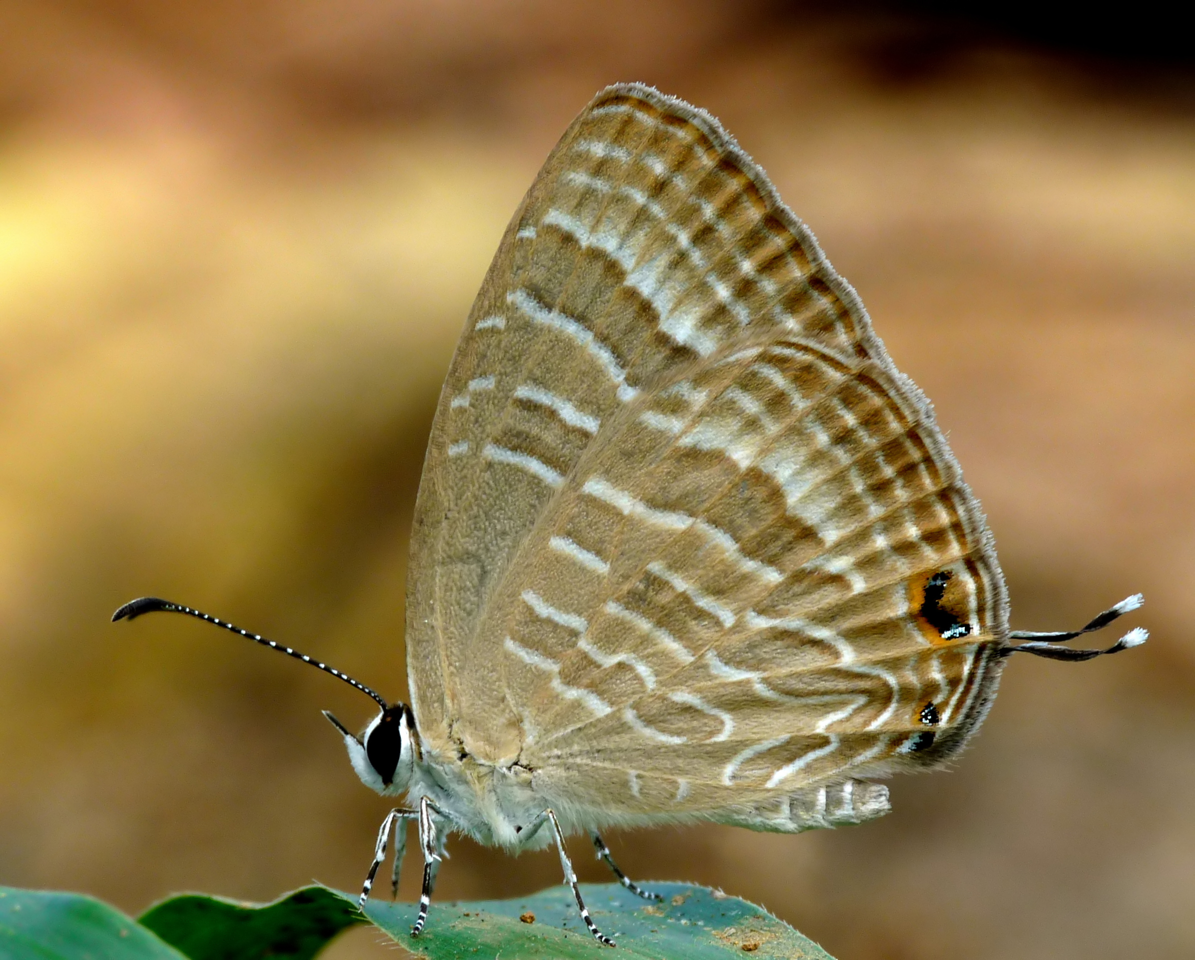 Jamides celeno DSF. The Common Cerulean (Jamides celeno) is a small butterfly found in India belonging to the Lycaenids or Blues family. Taken at Kadavoor, Kerala, India